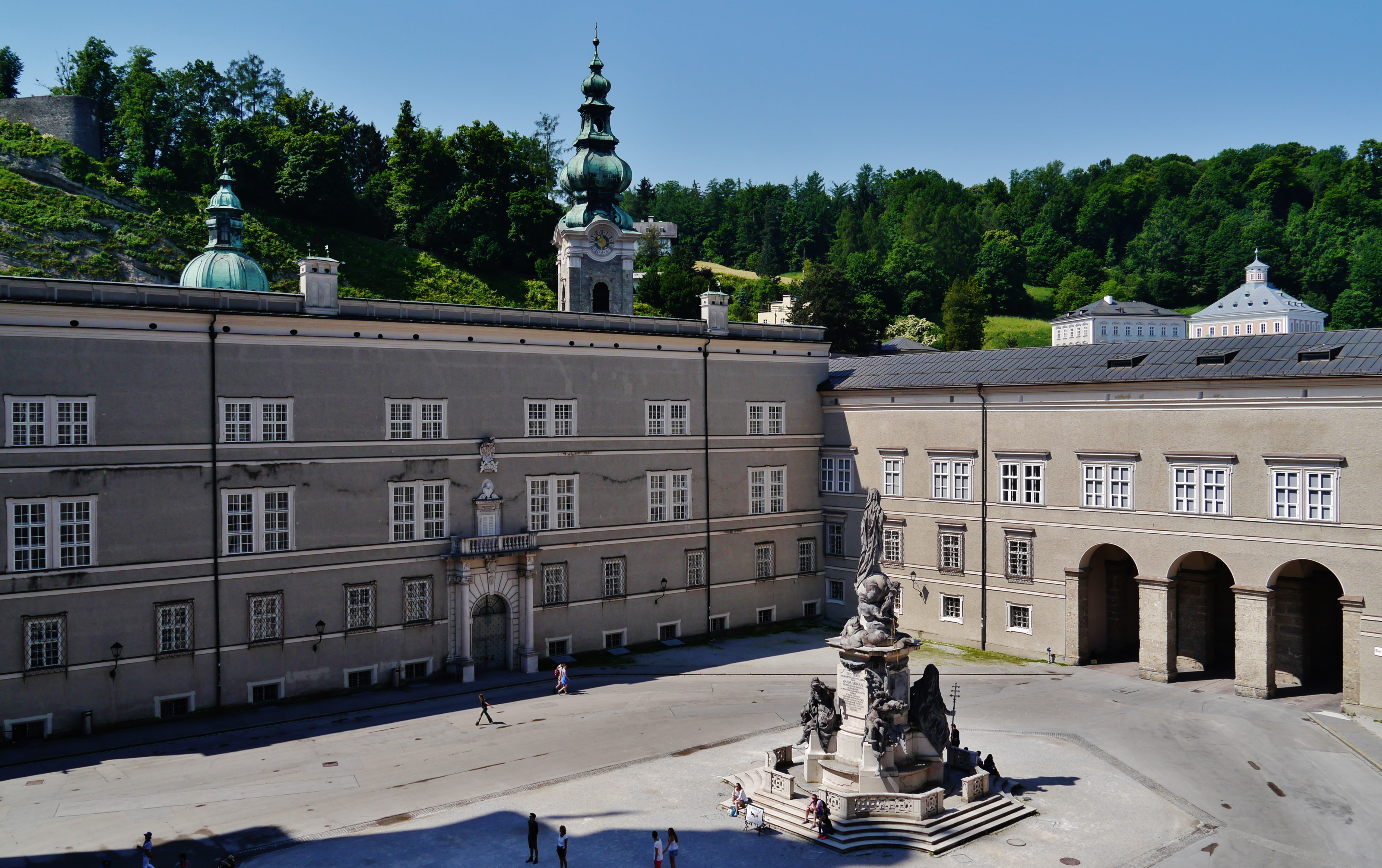 Cathedral Square, Salzburg, Salzburg, Austria